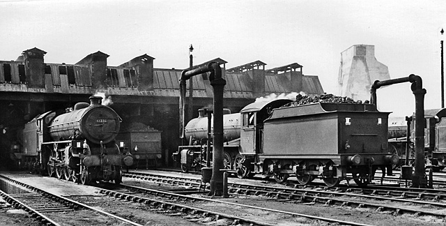 Cambridge Locomotive Depot. View southward from station platform; ex-Great Eastern principal Depot. Coded 31A by BR, it had an allocation of 94 locomotives (all steam) in 1954, providing passenger motive power for both the ex-GE and ex-Great Northern lines to London and to various lines radiating into East Anglia, also for local passenger and goods workings. By the date of this photograph the principal main line passenger trains had been dieselized and the steam allocation would have been considerably reduced - hence the comparative emptiness here. The Depot closed on 18/6/62 - and became a car park. The locomotive on the left is B1 4-6-0 No. 61236, that on the right is O1 2-8-0 No. 63725.